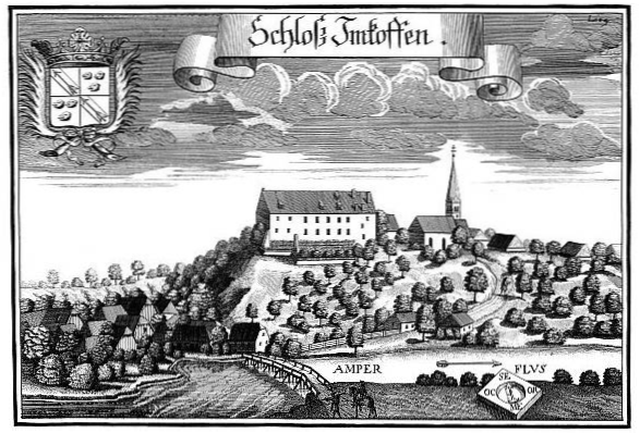 Castle Inkofen made by Michael Wening in Topographia Bavariae c. 1700